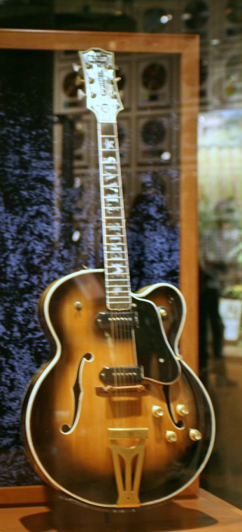 Gibson Super 400 (1952), Merle Travis, CMHF. Made from File:Gibson Super 400 (1952), Merle Travis, CMHF.jpg